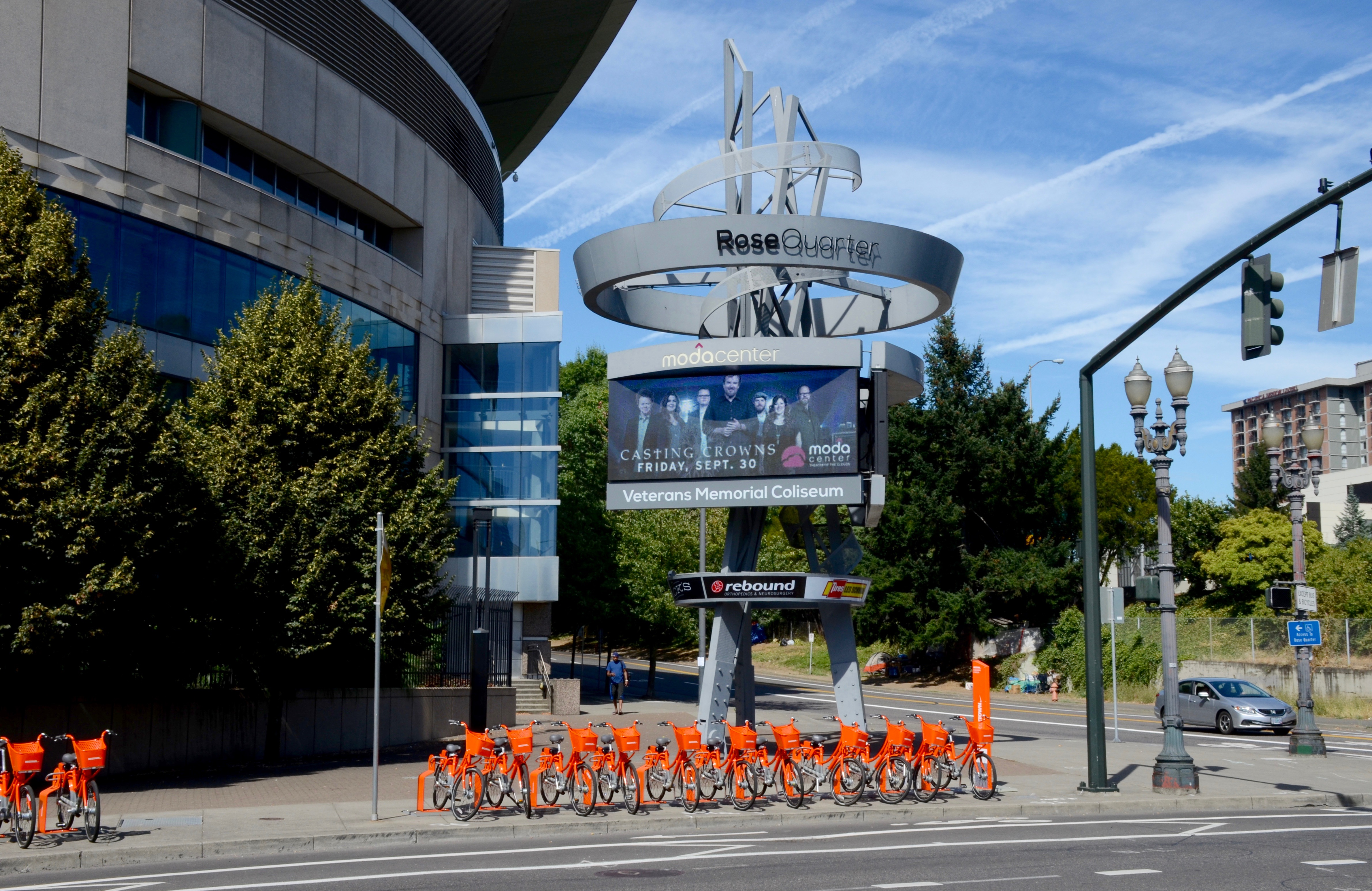 Signs for the Rose Quarter (complex), Moda Center and the Veterans Memorial Coliseum, in Portland, Oregon. The view is looking north-northeast near the intersection of NE Multnomah Street & Wheeler Avenue. In the foreground is a station for Biketown, the city's bike-sharing system (which was only one month old at the time of the photo).